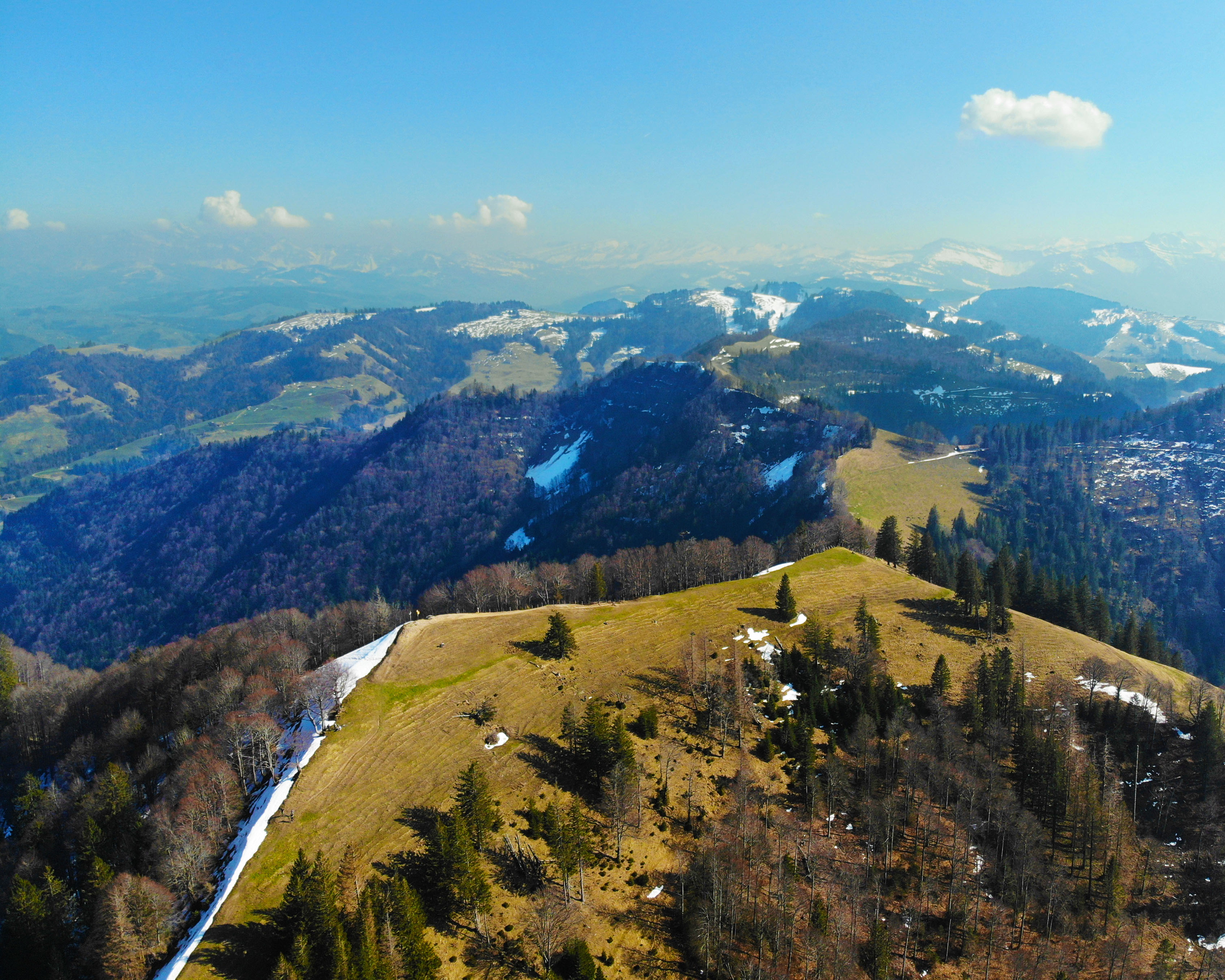 This is an aerial photo of Schnebelhorn (summit visible in foreground), taken March 2020, facing southeast towards the Appenzell Alps, around 2:30 pm. Schnebelhorn is the highest summit in the canton of Zürich.